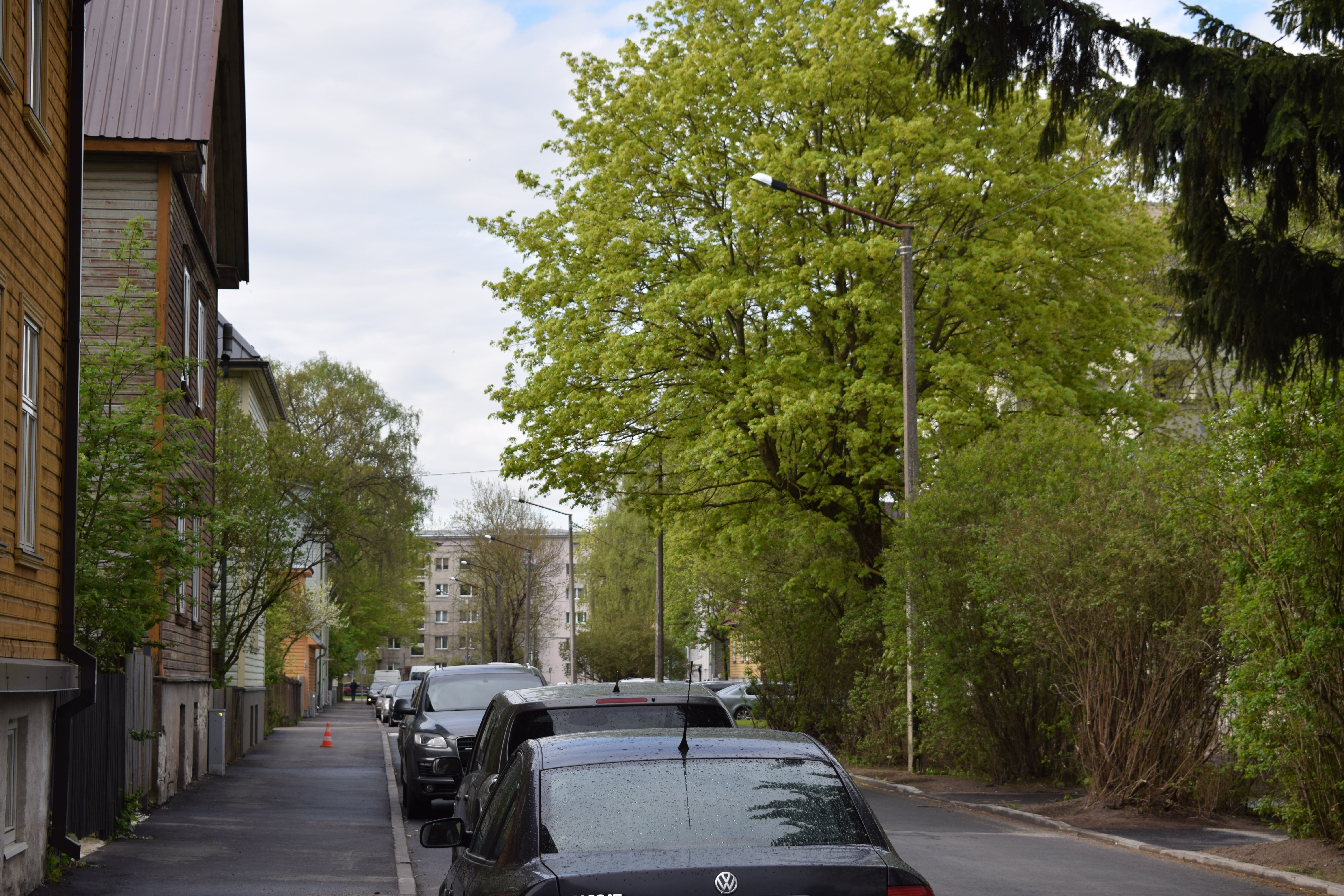 Loo tänav